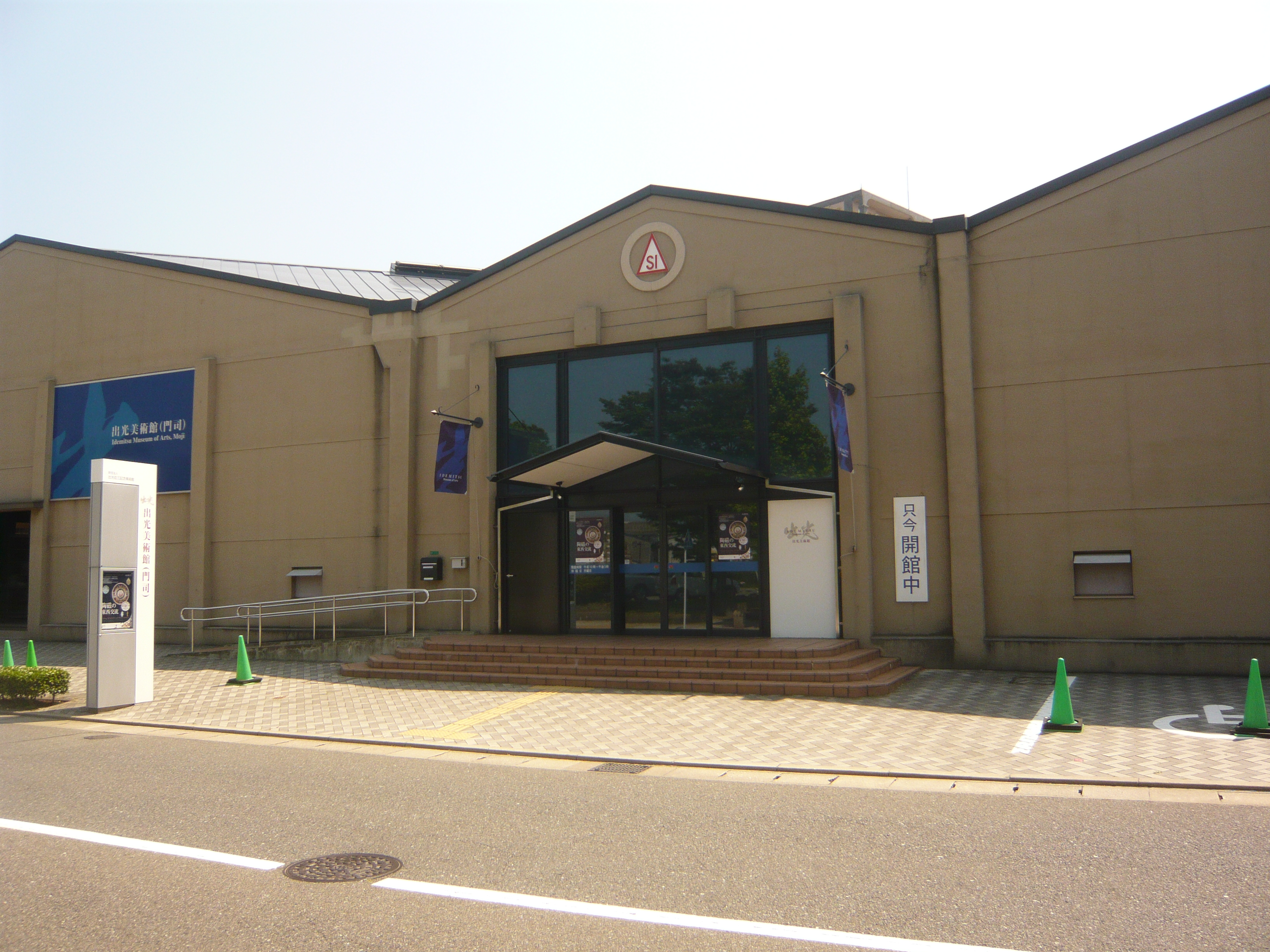 Idemitsu Museum of Arts, Kitakyushu, Fukuoka, Japan